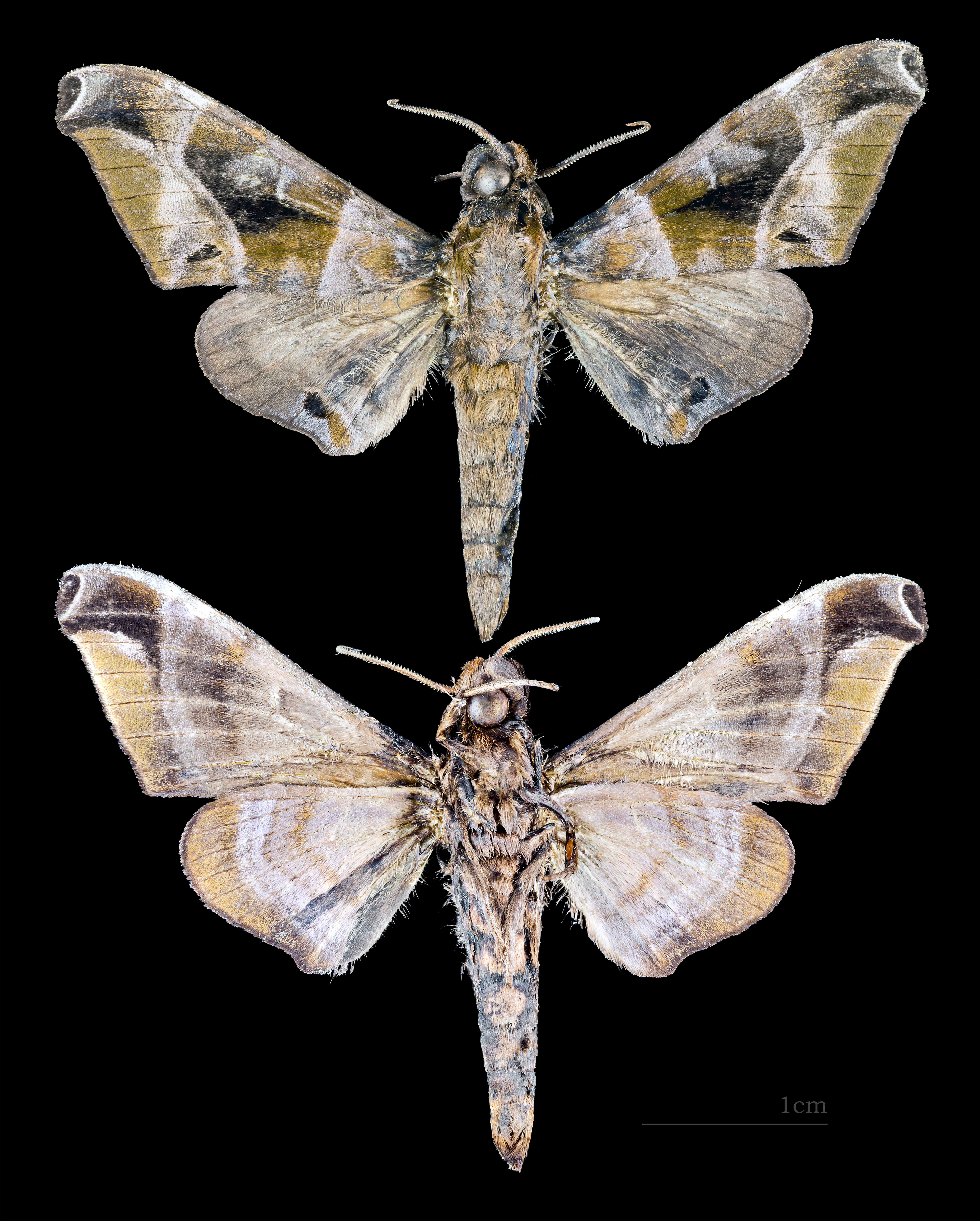 Craspedortha porphyria - Two views of same specimen